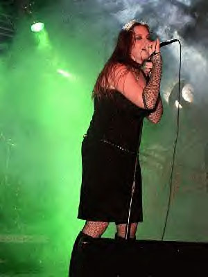 Flowing Tears live 2004